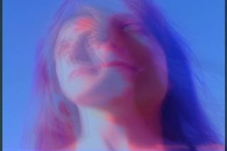 A freeze frame taken from the video projection used in Abducted